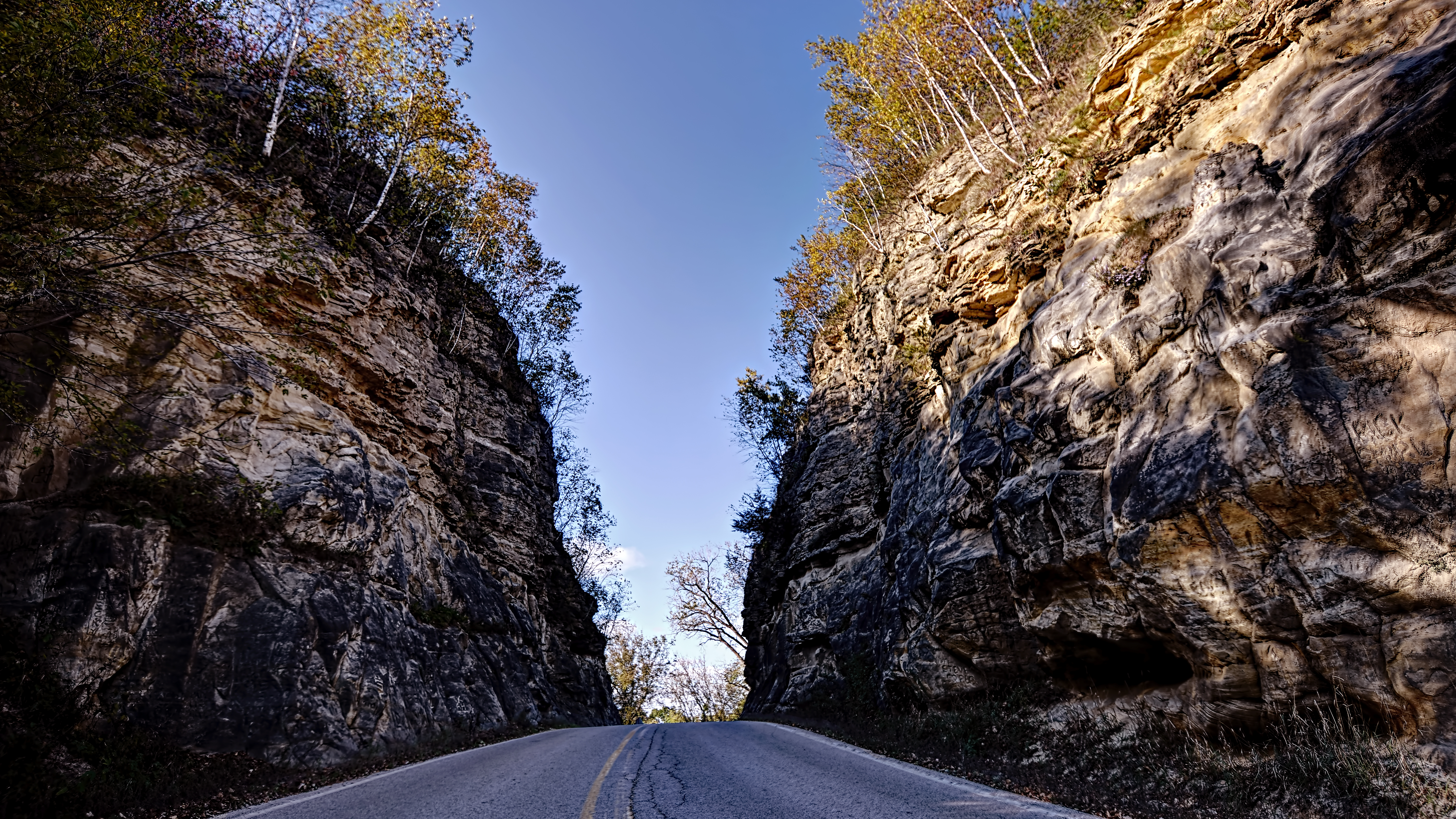 Mindoro Cut